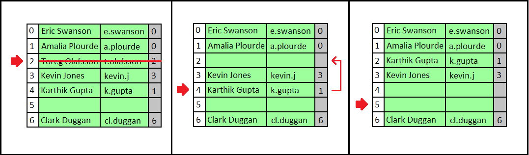 This hash table uses linear probing to resolve collisions. The diagram illustrates the deletion process.